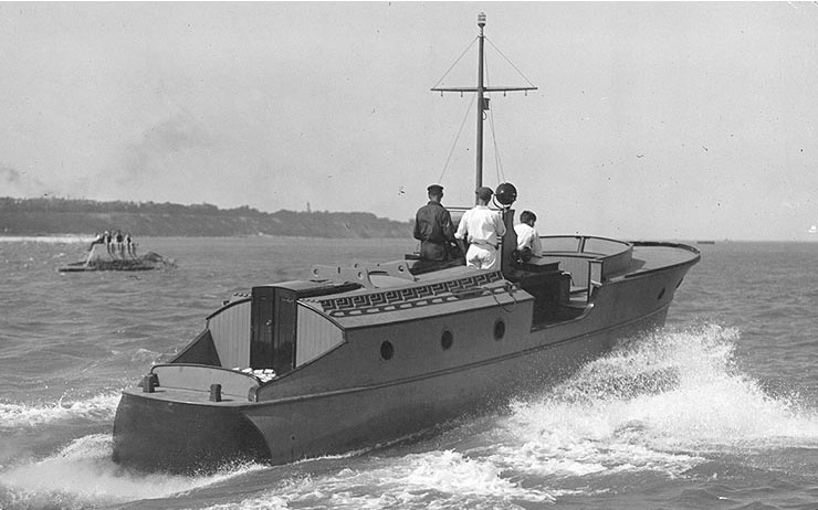 The private motorboat Terrier shortly after completion, probably in the vicinity of Milwaukee, Wisconsin, and just prior to her United States Navy service as the patrol vessel .